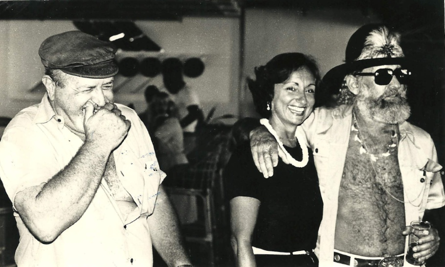 Rafi Nelson (right), Rachel Haramati and Didi Menosi